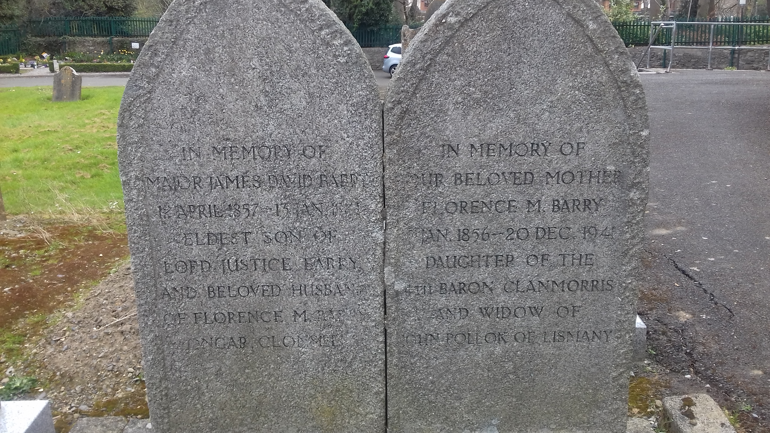 On the left,Major James David Barry, son of Lord Justice Barry. On the right, his wife Florence Barry, daughter the the 4th Baron Clanmorris. Located close to the church's entrance door.